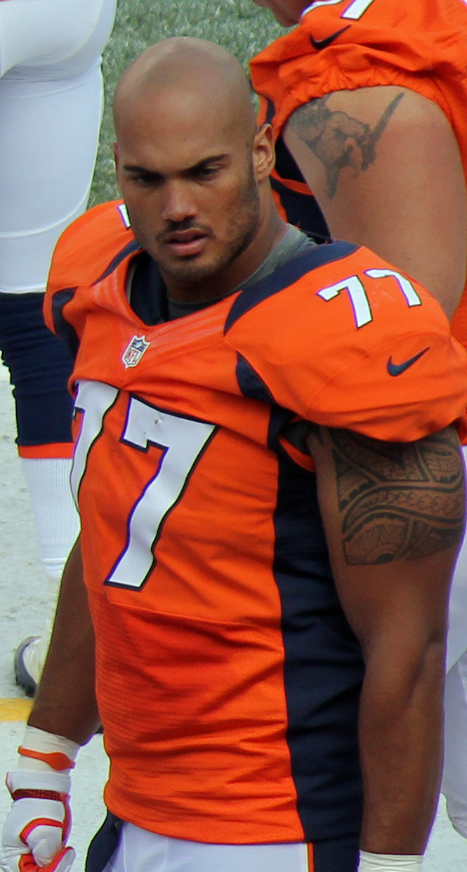 Jamie Blatnick, a player on the National Football League.